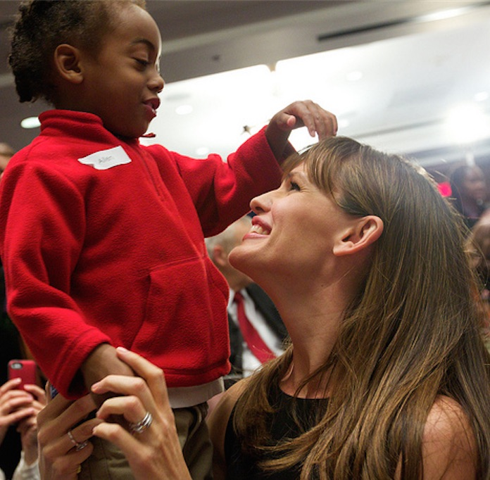 Early Learning Bill